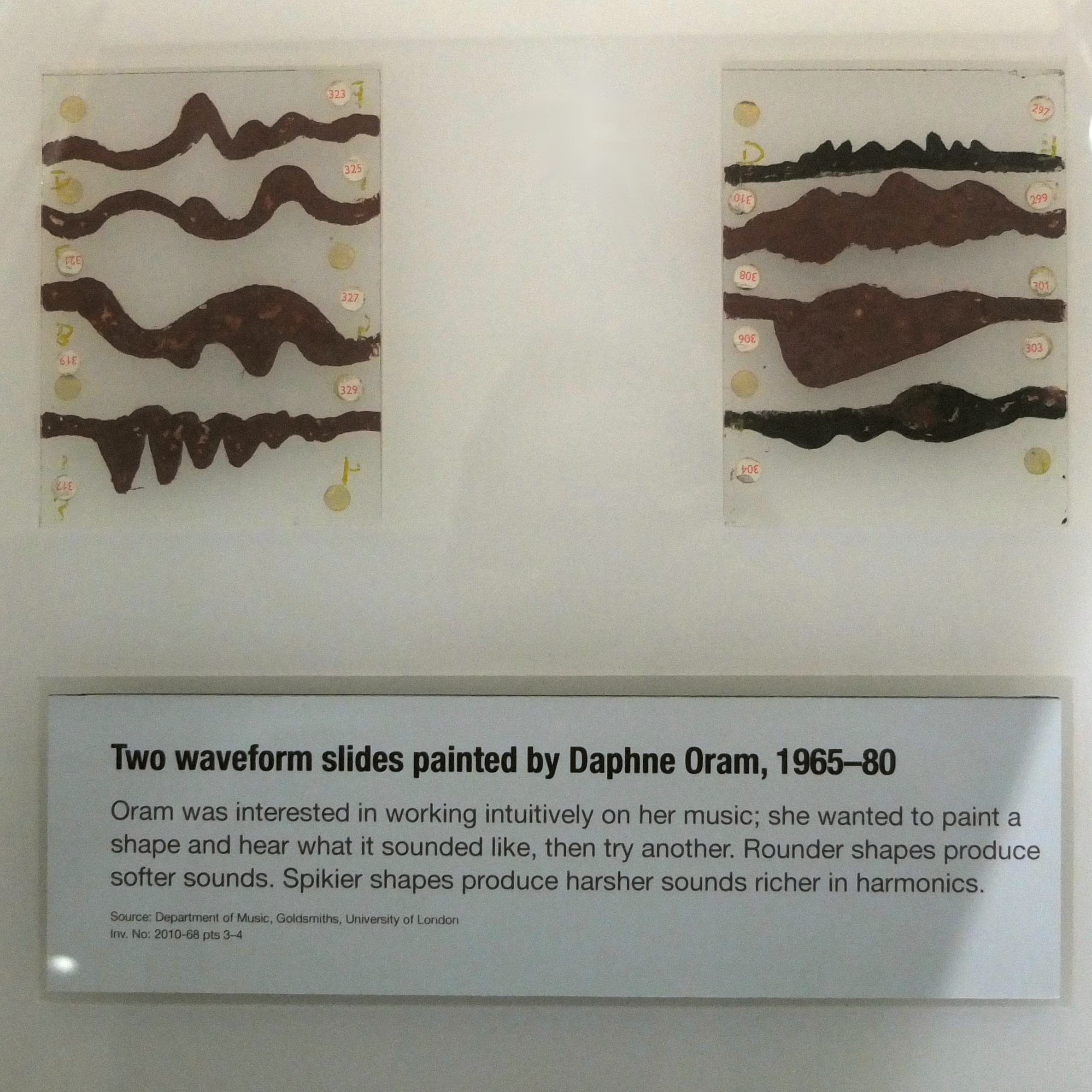 Two waveform slides painted by Daphne Oram, 1965–80 Oram was interested in working intuitively on her music; she wanted to paint a shape and hear what it sounded like, then try another. Rounder shapes produce shofter sounds. Spikier shapes produce harsher sounds richer in harmonics. Source: Department of Music, Goldsmiths, University of London Inv. No: 2010–68 pts 3–4